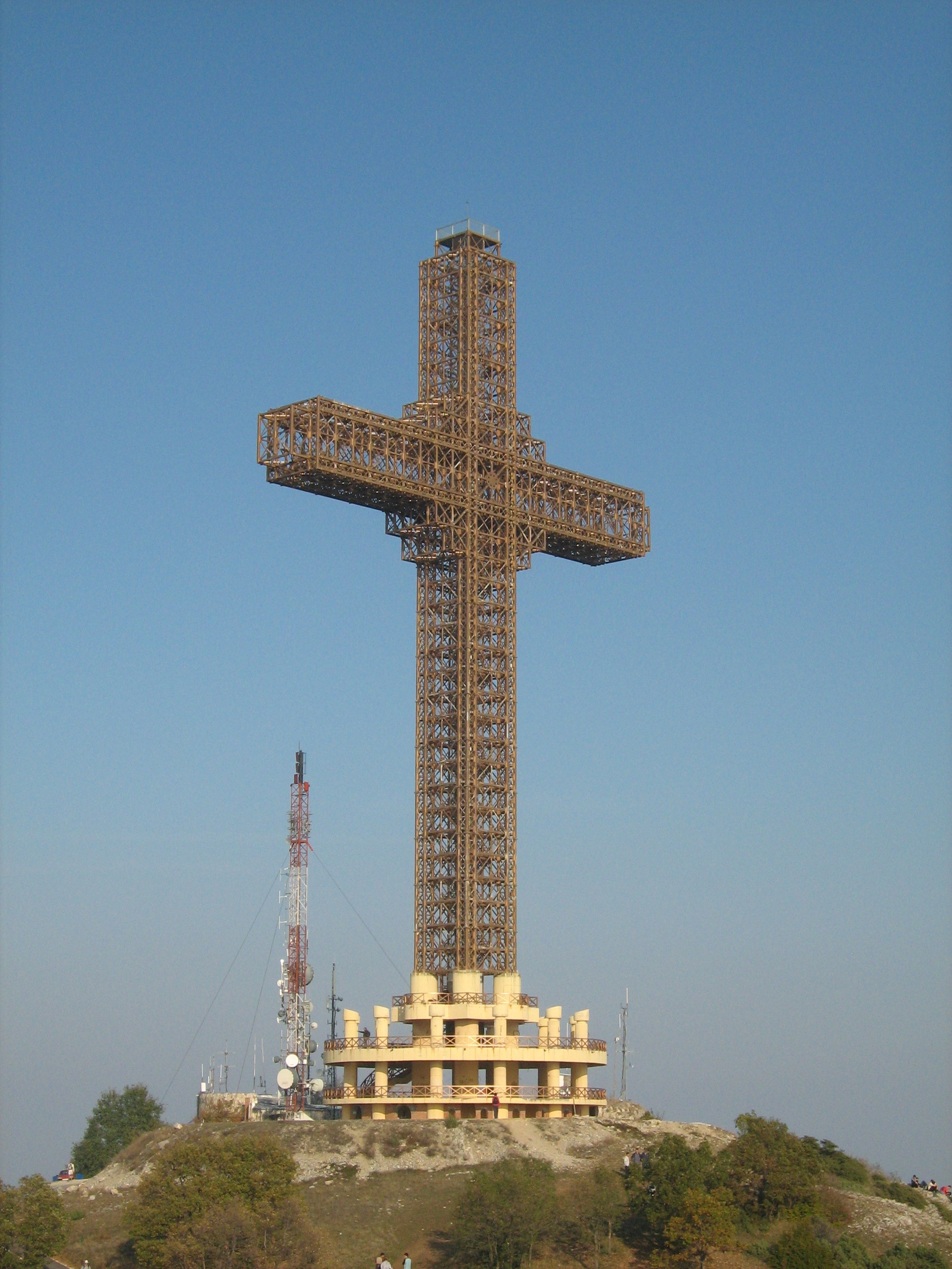 Millennium Cross in Skopje